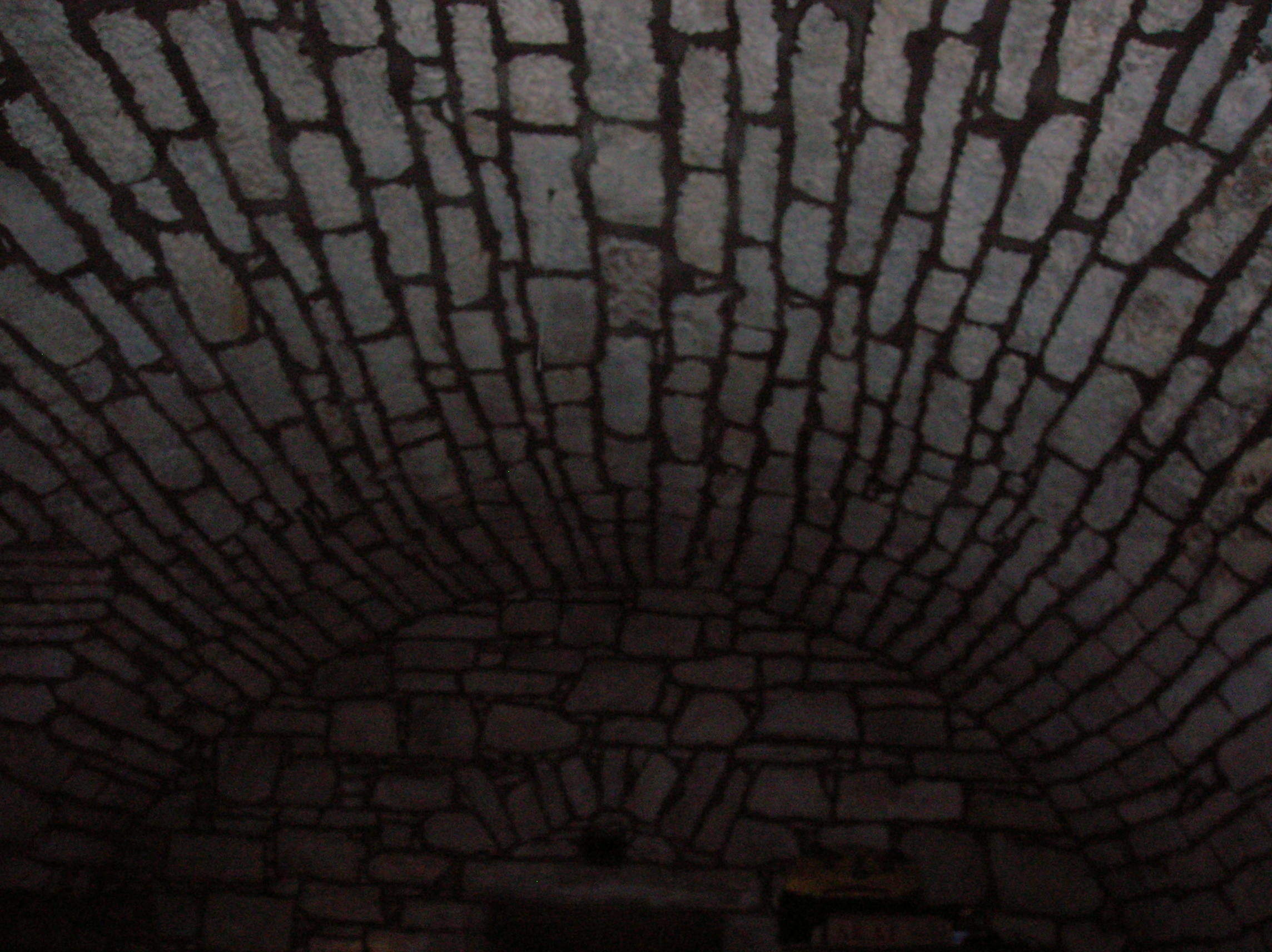 Vaulted chamber at Kilmaurs Place, East Ayrshire, Scotland.